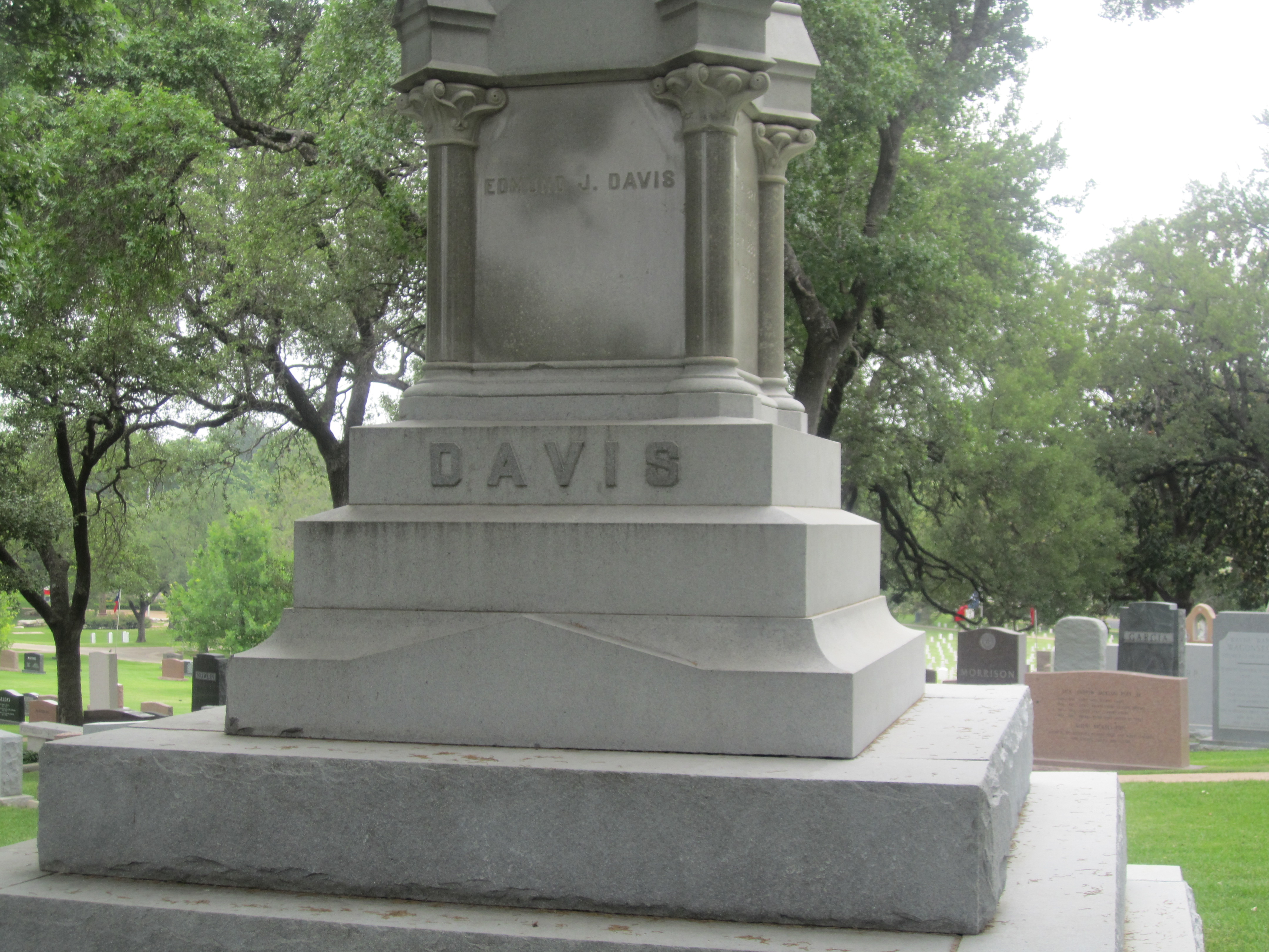 I took photo with Canon camera of the bottom of the Edmund J. Davis monument at the TX State Cemetery at Austin.